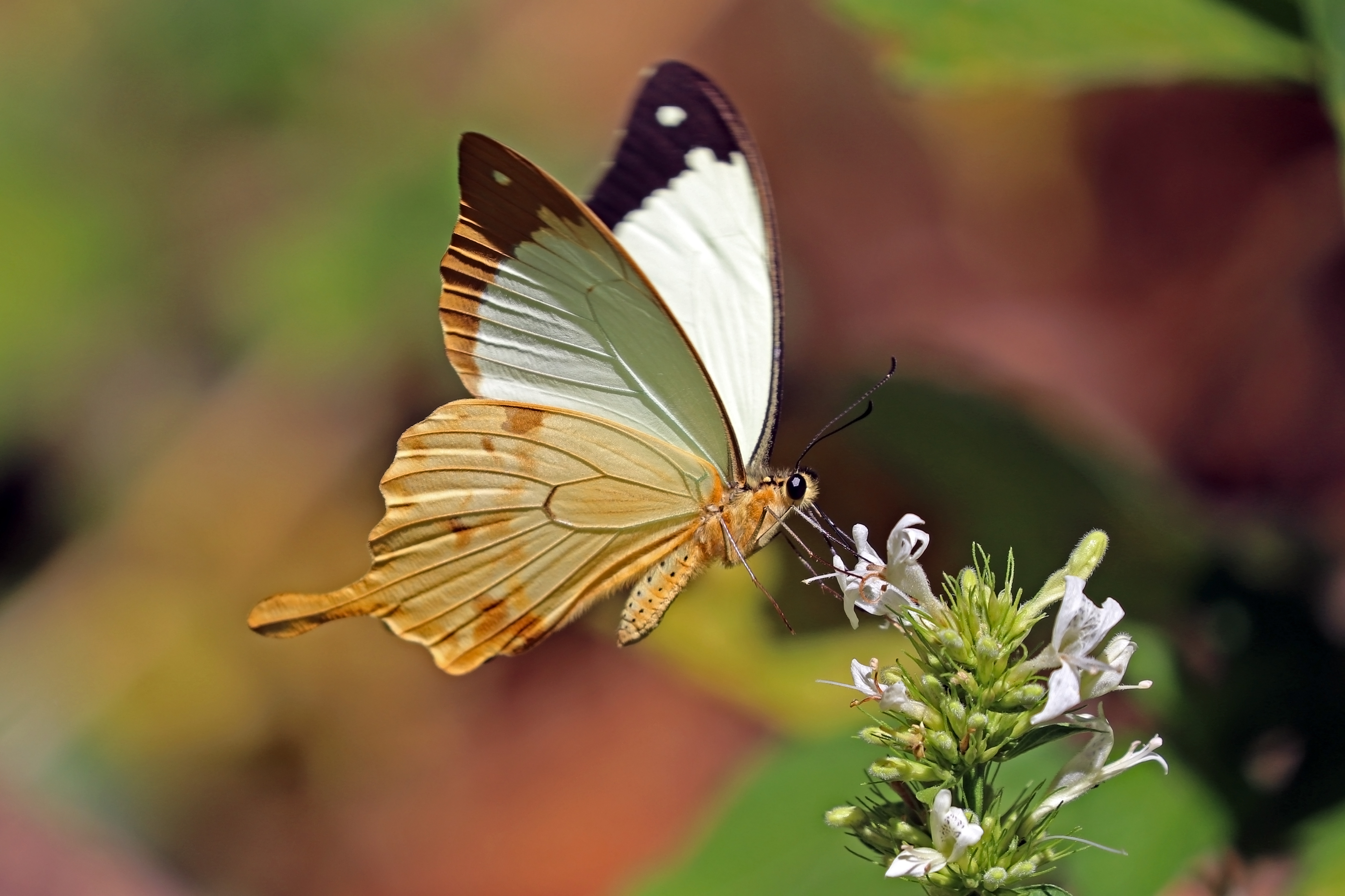 African swallowtail (Papilio dardanus antinorii) male, Harenna Forest, Ethiopia